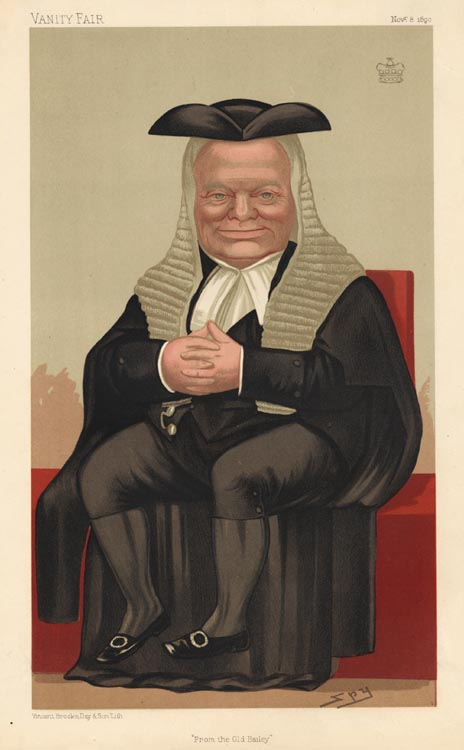 Caricature of Hardinge Giffard, Baron Halsbury. Caption read "From the Old Bailey".